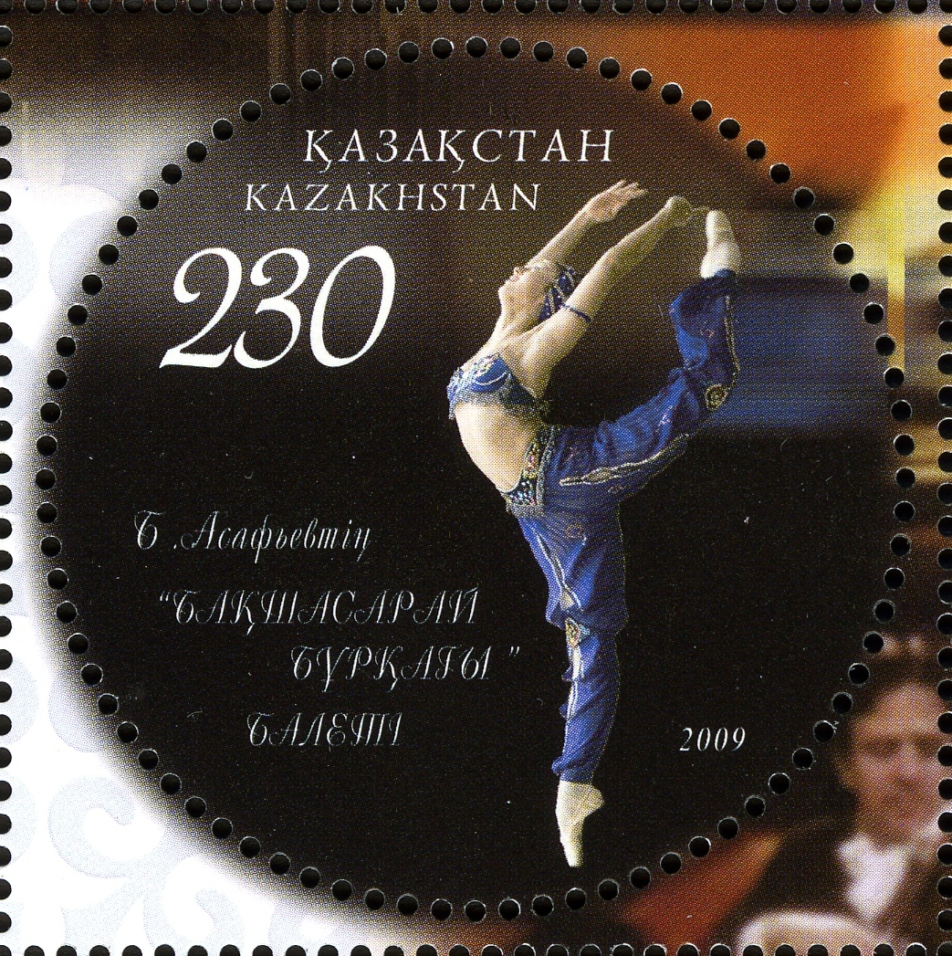 Stamps of Kazakhstan, 2009